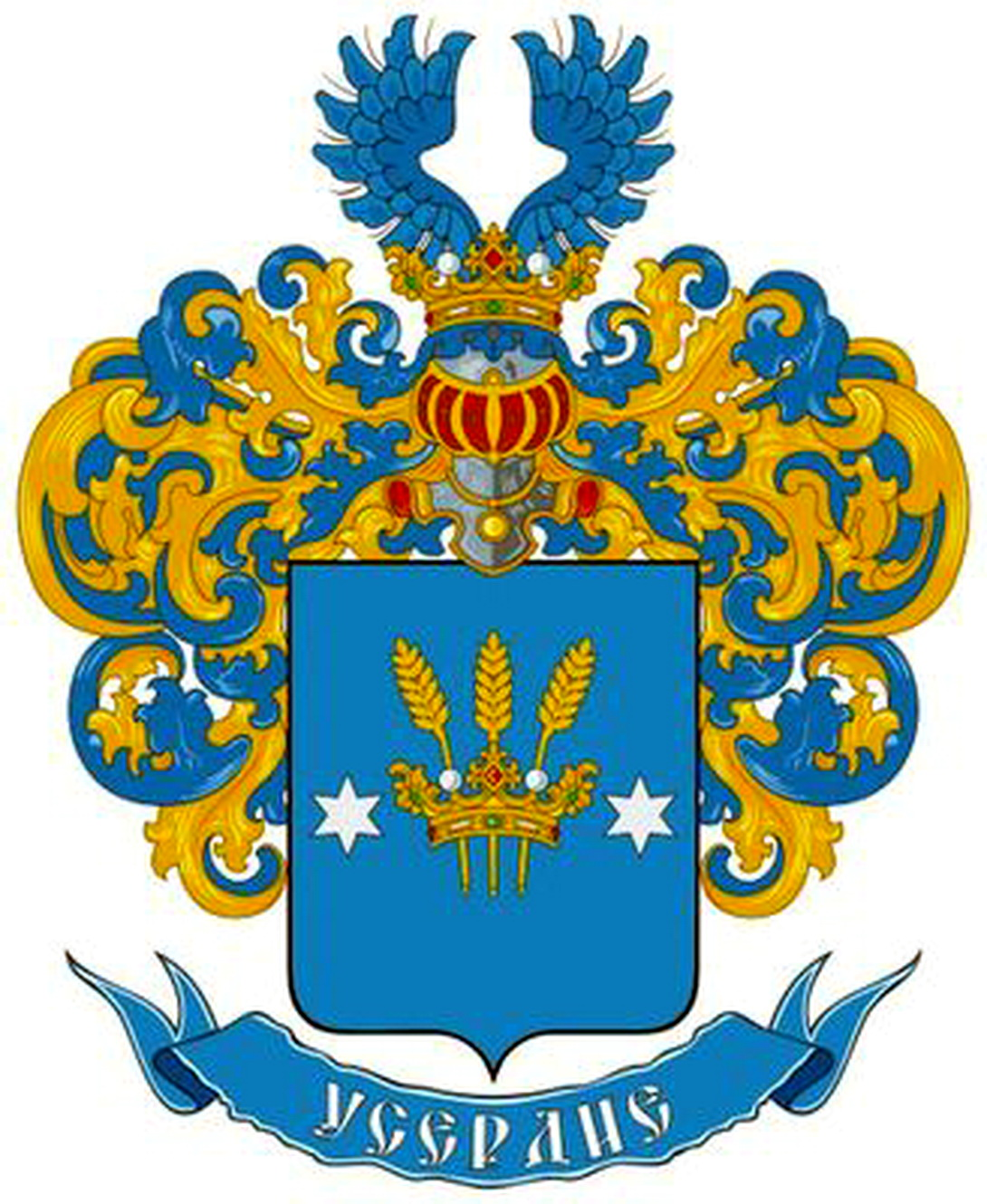 Coat of Arms of Kurbatovy family